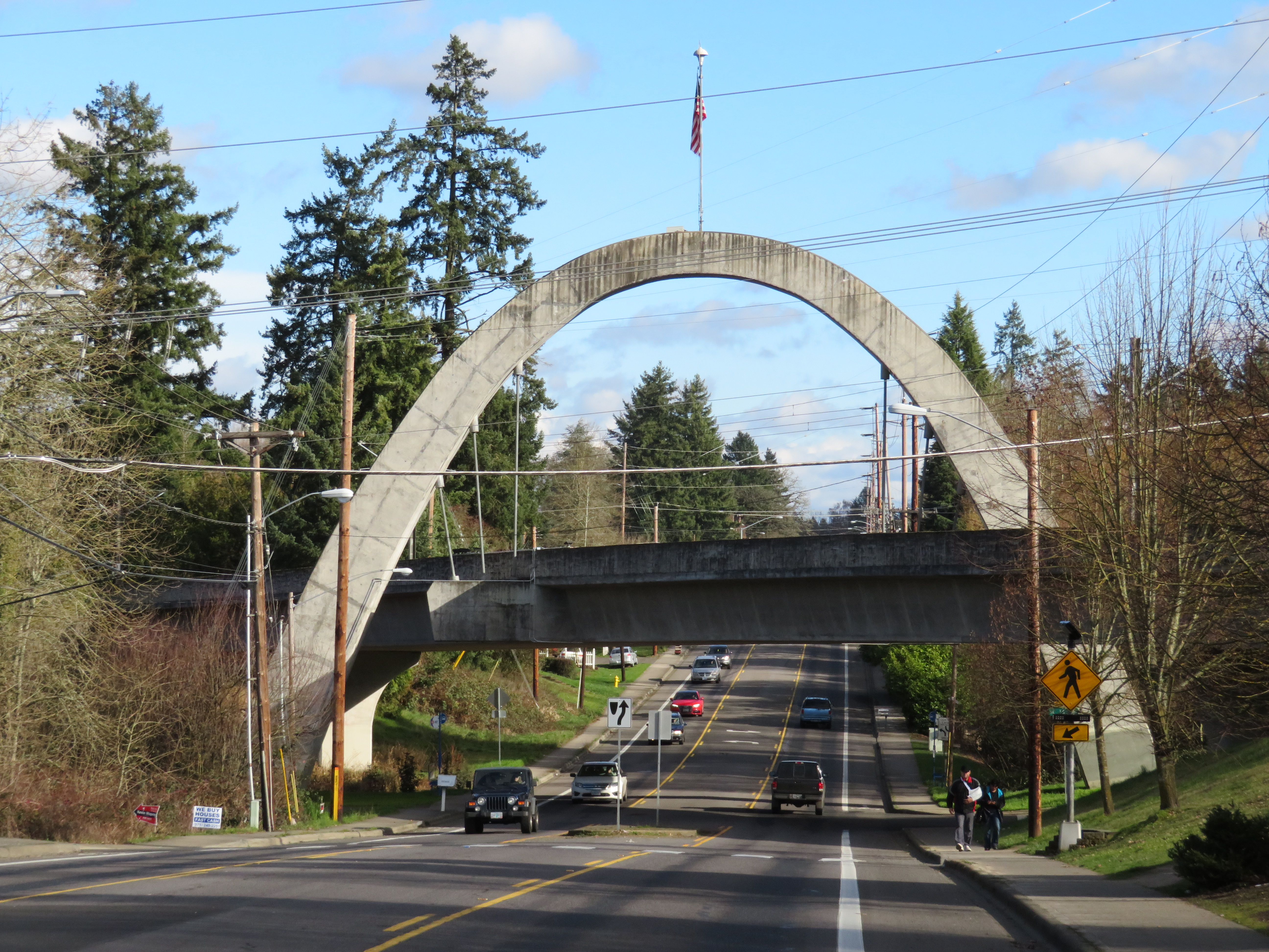 MAX bridge over Main Street in Hillsboro, Oregon in February 2018